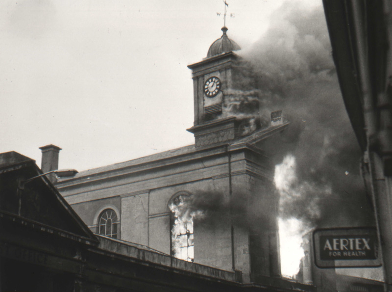 Priory street, Market Hall March in 1963 on Fire from South West Angle across street. Monmouth Museum Identification Number:M1694